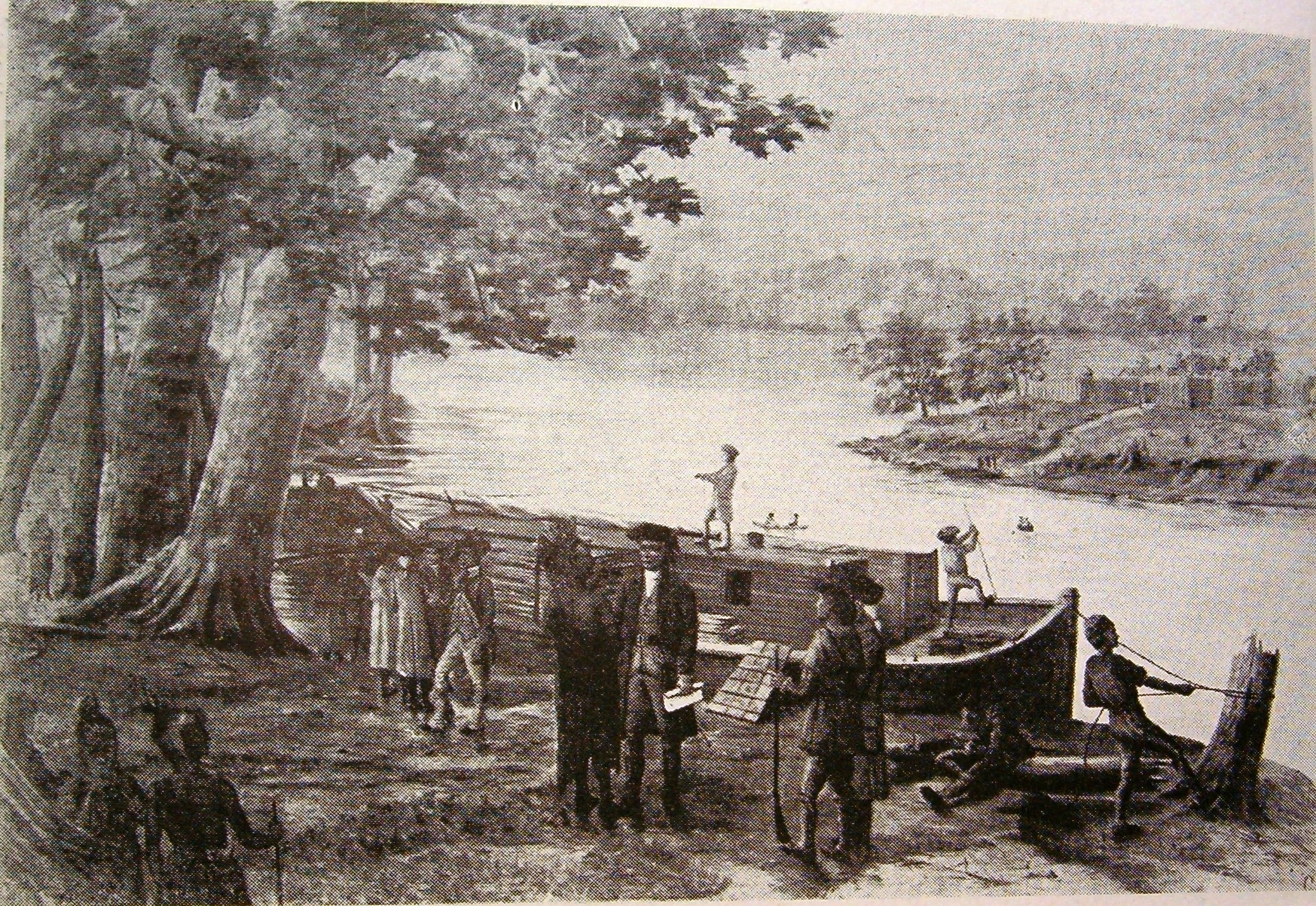 Arrival of Rufus Putnam and American pioneers to the Northwest Territory at the mouth of the Muskingum River at the confluence of the Ohio and Muskingum rivers, on April 7, 1788. The image view is looking south toward the mouth of the Muskingum River. Fort Harmar is in the center-right background of this image, on the west side of the mouth of the Muskingum river. These pioneers to the Ohio Country established Marietta, Ohio as the first permanent American settlement of the new United States in the Northwest Territory, and opened the westward expansion of the new country. This image is from the book by John T. Faris, On the Trail of the Pioneers, published in 1920. ColWilliam (talk) 21:36, 2 May 2008 (UTC)